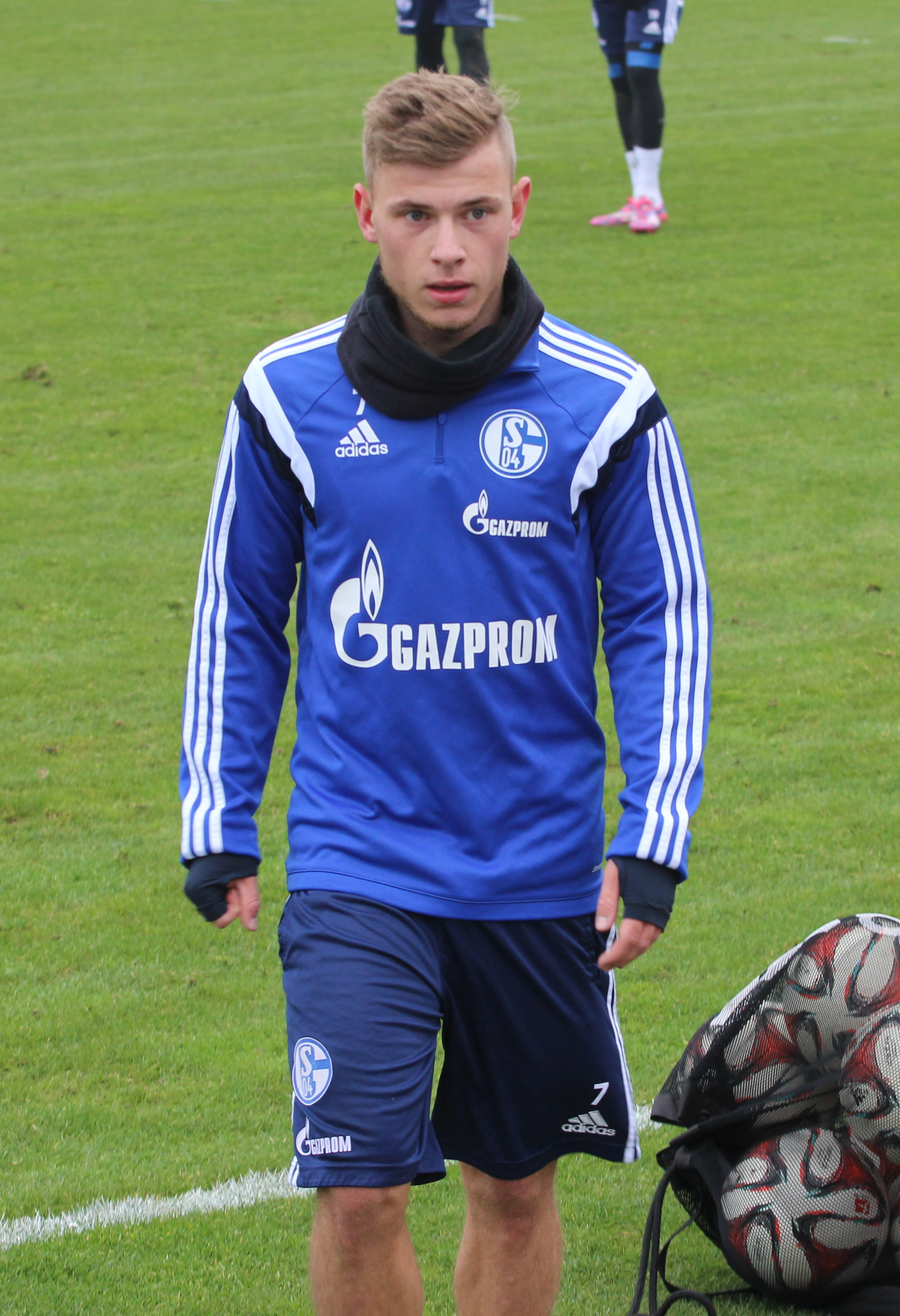 Max Meyer in training with FC Schalke 04